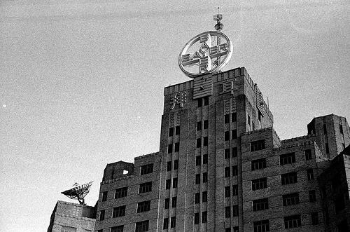 Bayer Industry